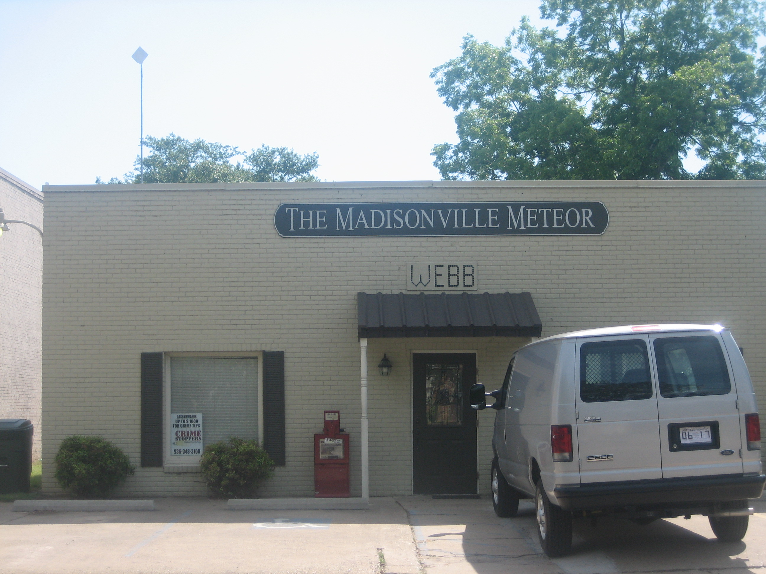 The Madisonville Meteor newspaper office, 205 N. Madison St., Madisonville, Texas